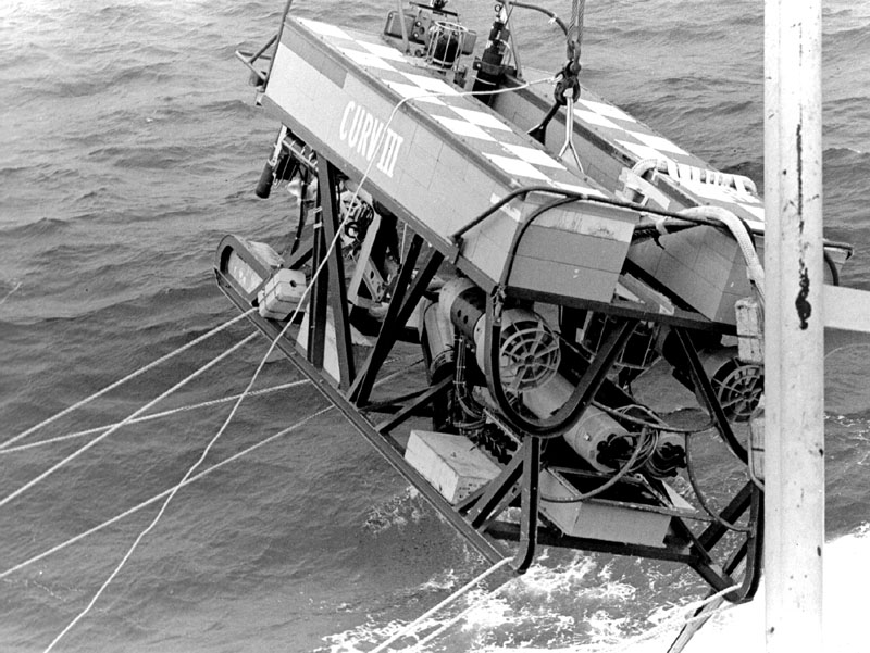 United States Navy CURV-III remotely operated underwater vehicle. Launching CURV-III during Pisces III rescue operation September 1973.